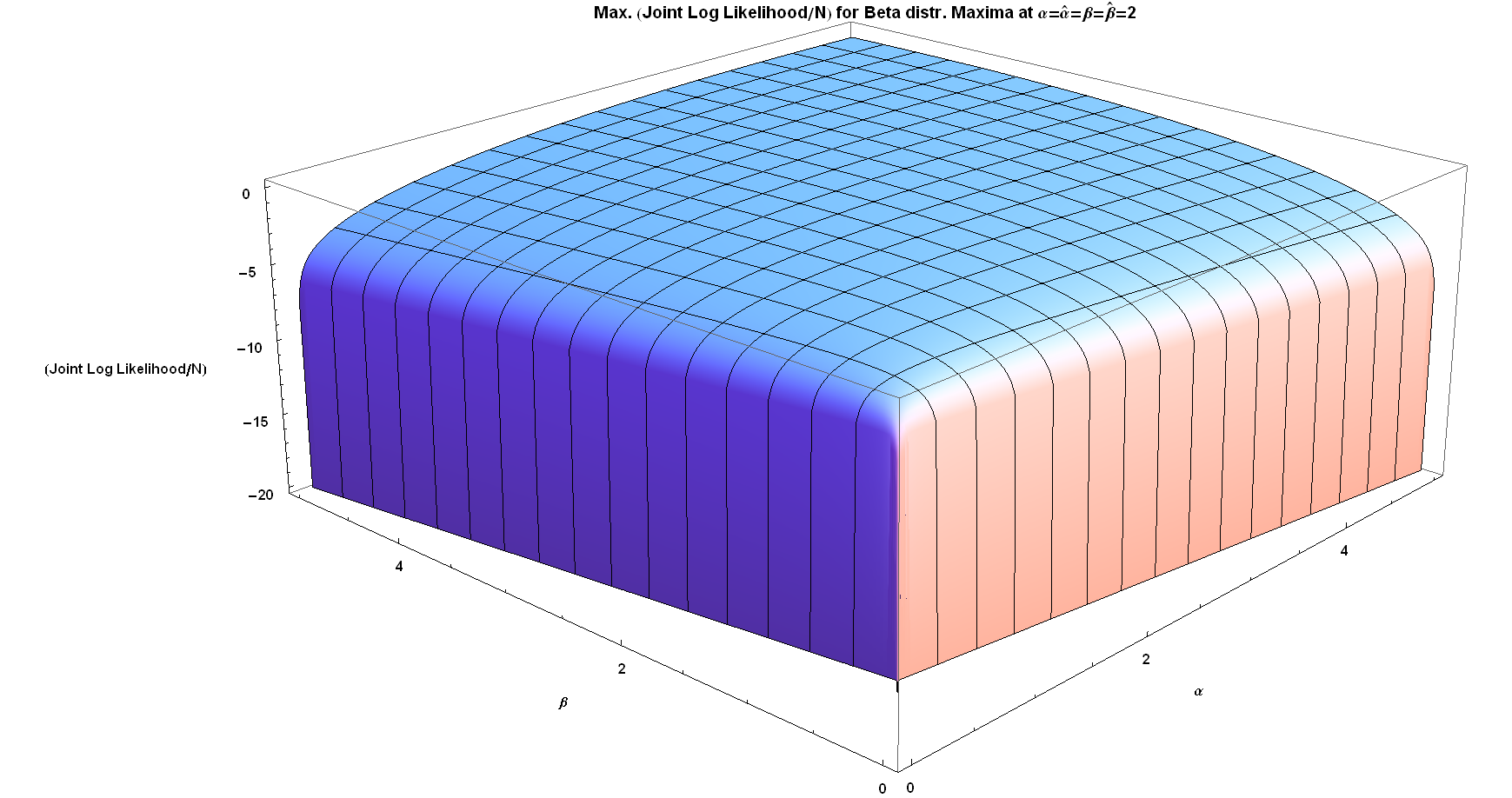 Max (Joint Log Likelihood/N) for Beta distribution Maxima at alpha=beta=2 - J. Rodal